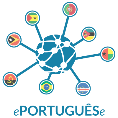 This is the new 2013 ePORTUGUESe Programme LOGO